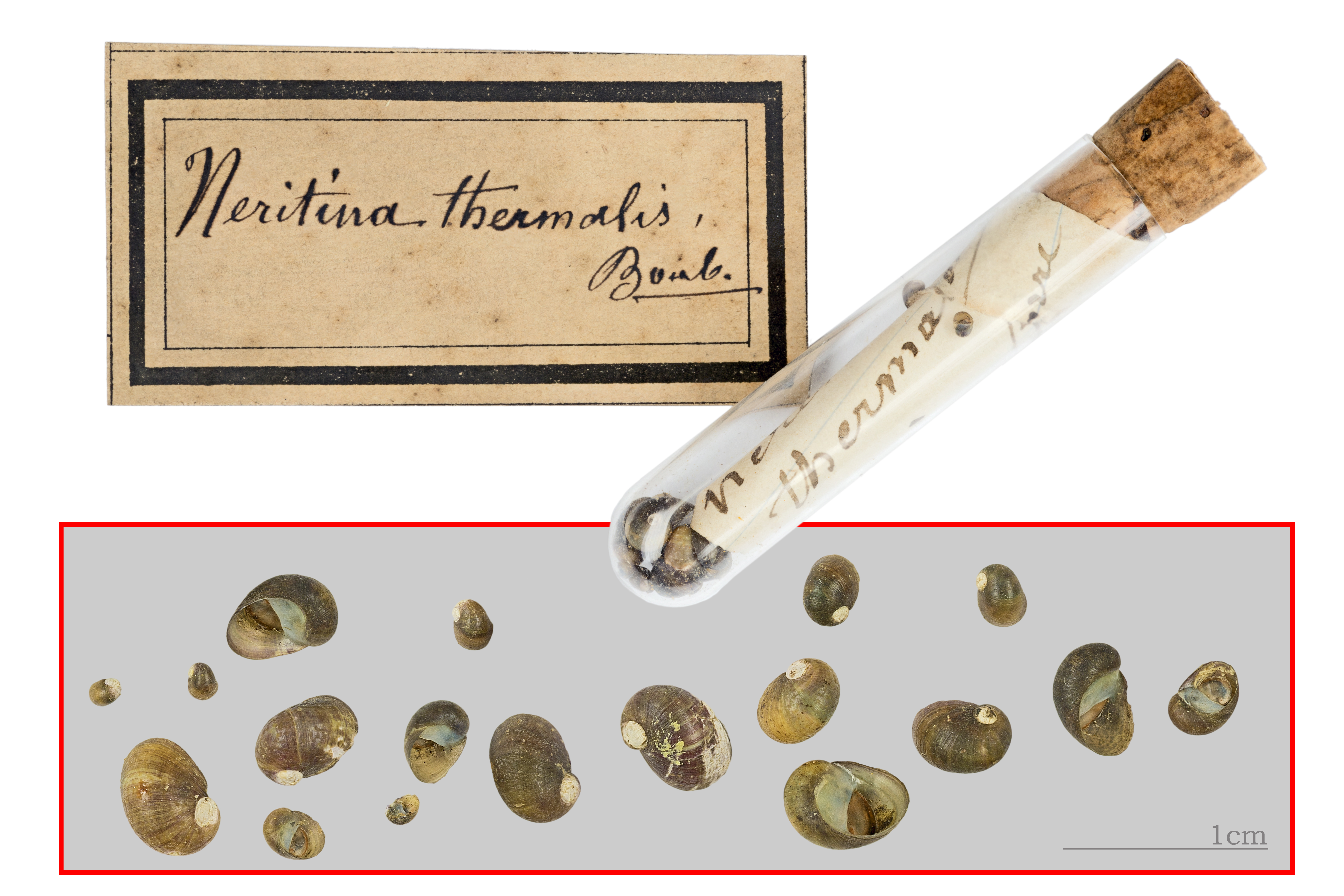 Theodoxus fluviatilis thermalis. Syntype.